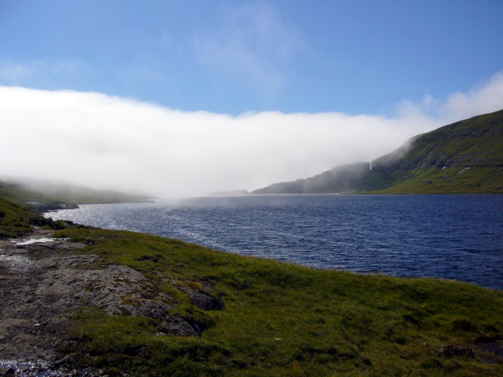 Mjørkin verður tjúkri 2006)&t=h See where this picture was taken. ?